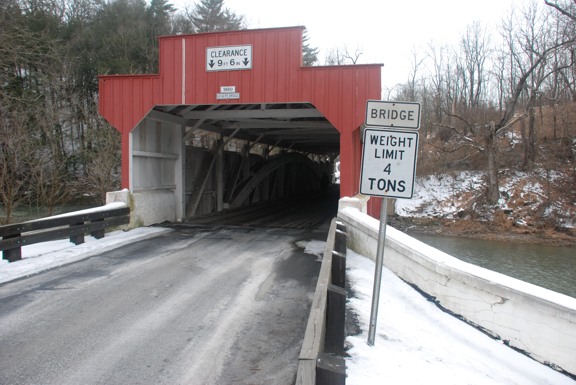 Geiger's Bridge in Orefield, Pennsylvania, USA